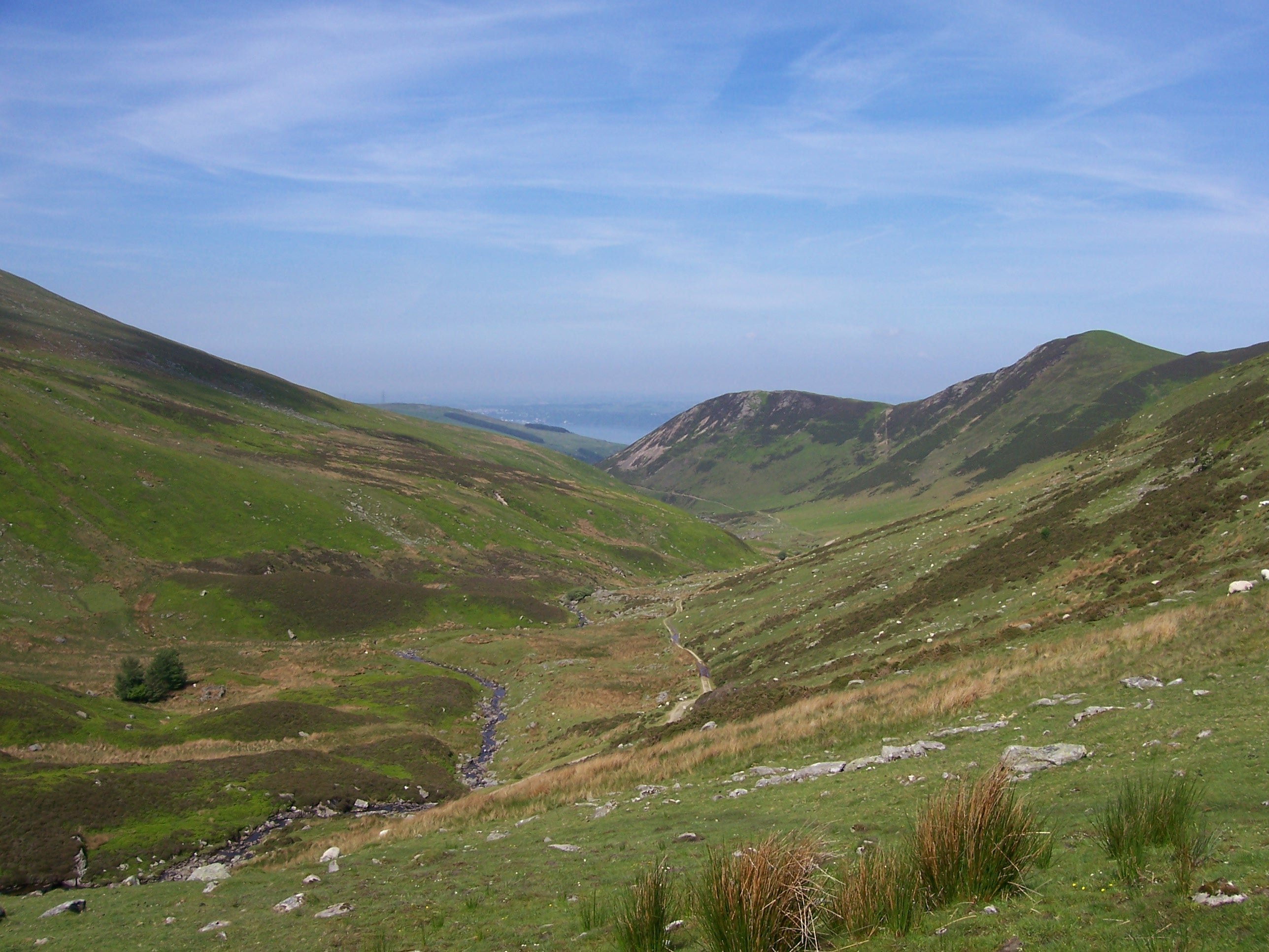 The Anafon Valley in North Wales, UK and the setting for Left Luggage in the science fiction trilogy by Geoff Nelder.